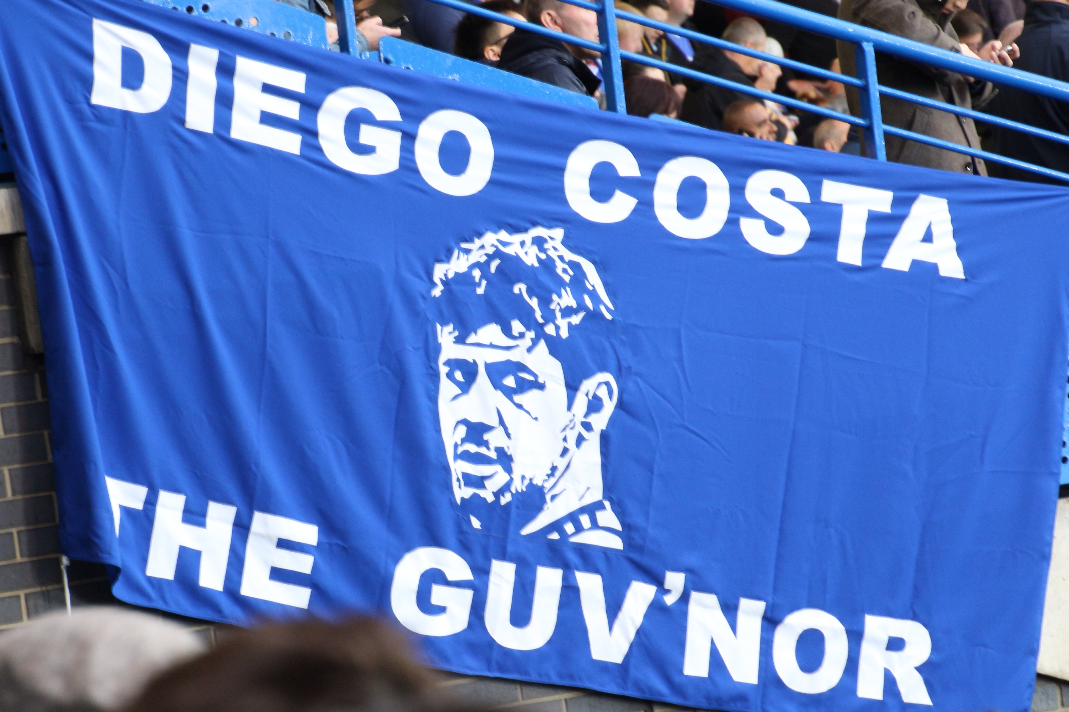 Chelsea 2 West Brom 0 The Blues go marching on.